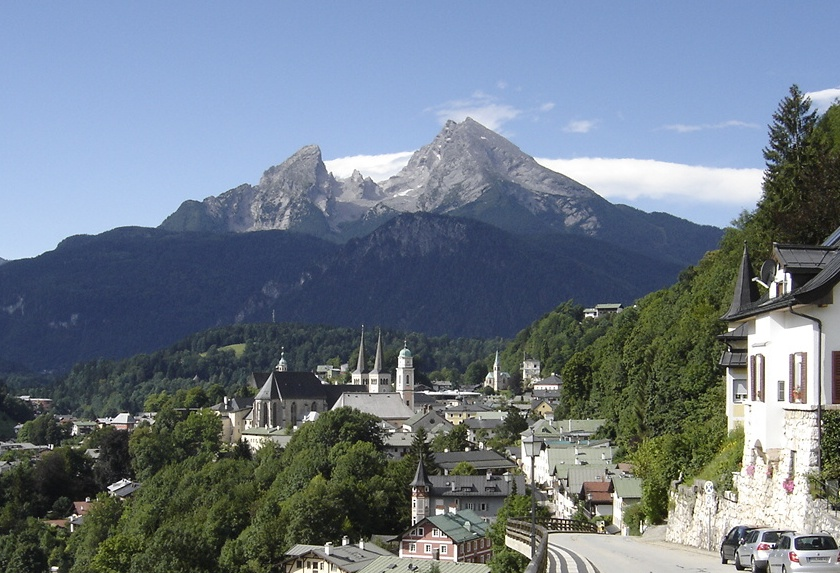 The Watzmann mountain photographed from Berchtesgaden, Bavaria, Germany (8-15-2010)